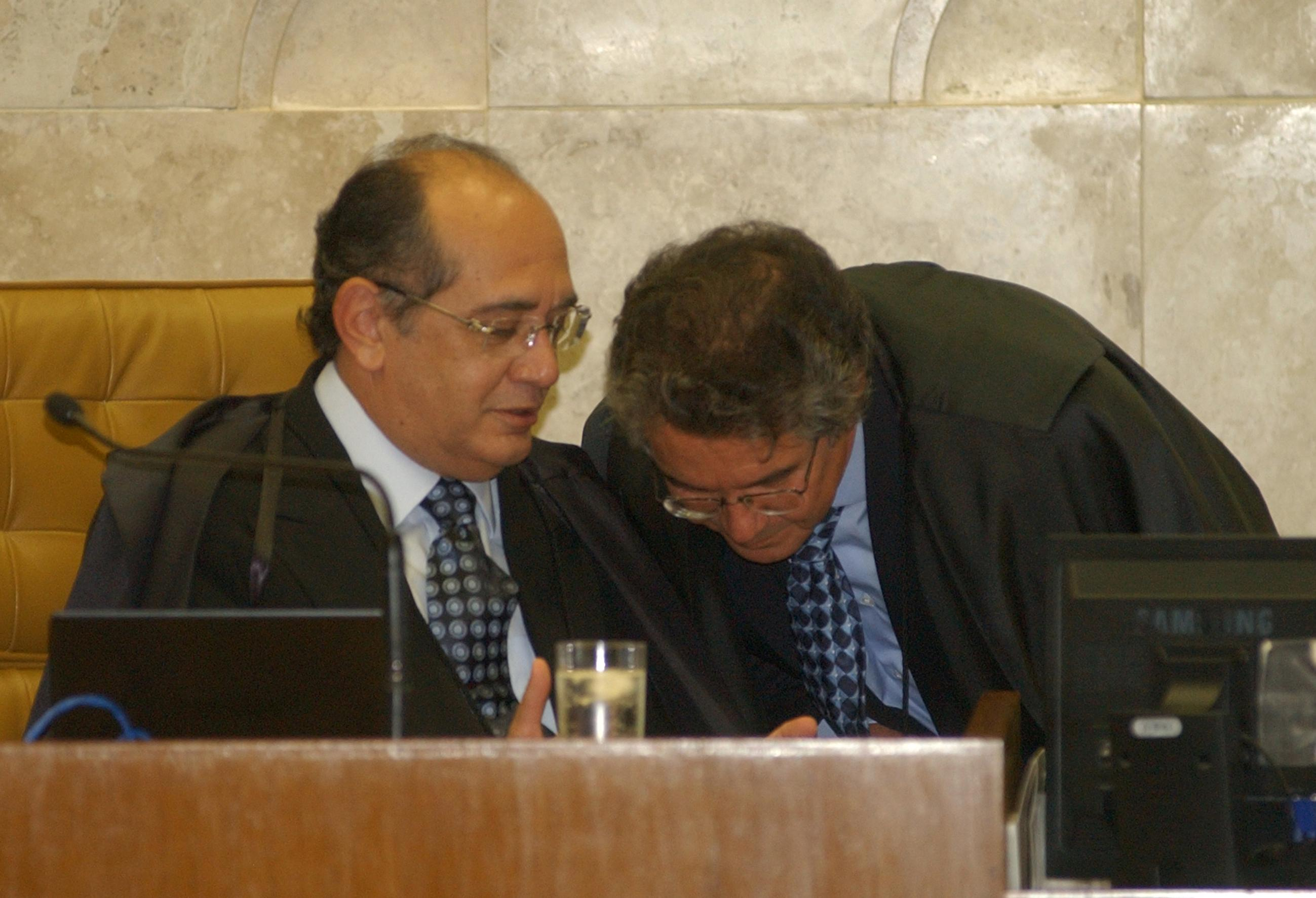 The Federal Supreme Court (STF) unanimously decided on Thursday (August 7, 2008) that the use of handcuffs should only be adopted in extremely exceptional cases, as it violates the principle of human dignity.